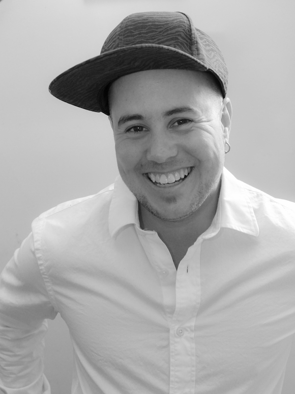 Photo of film director Remy Huberdeau